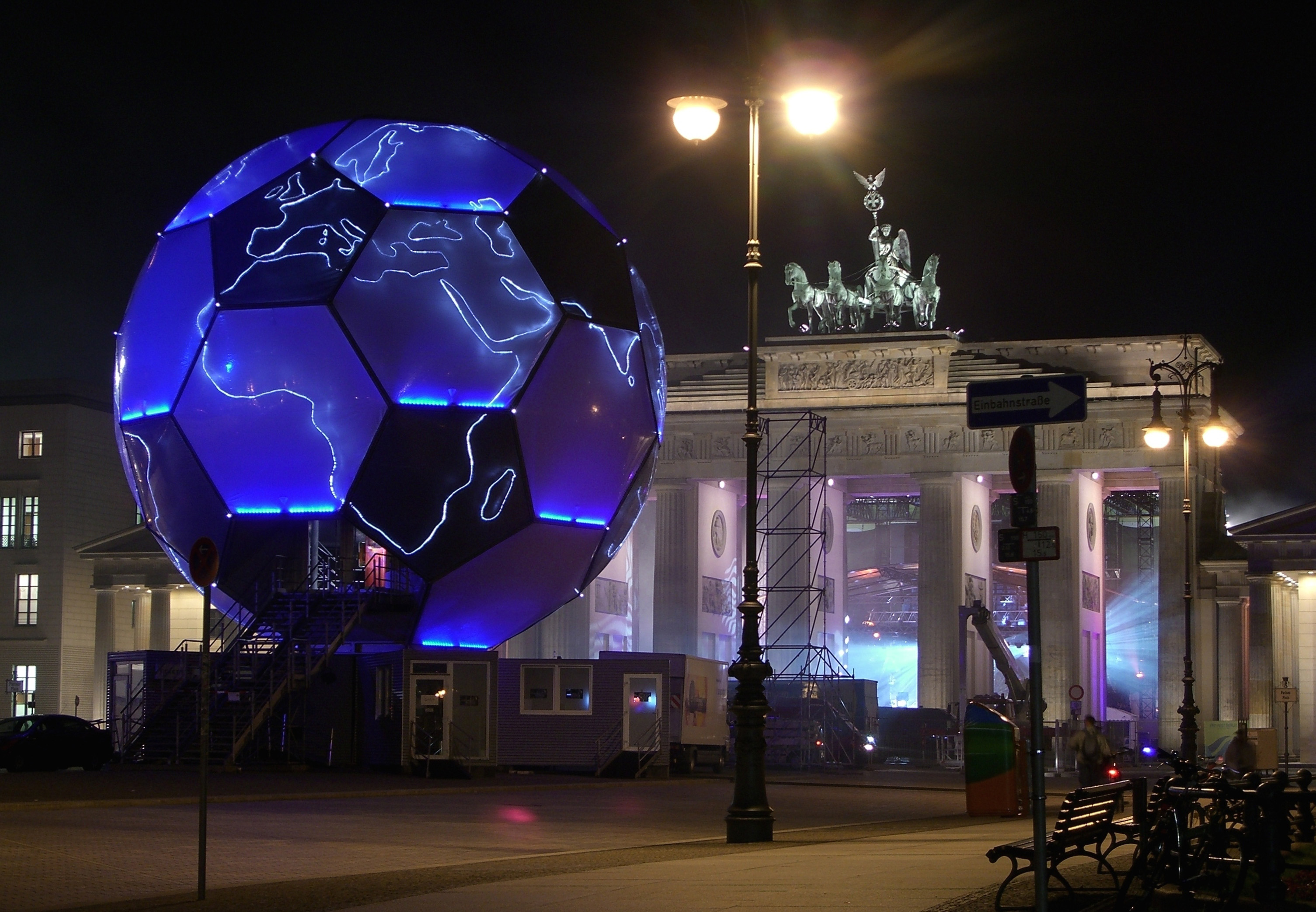 Football Globe of the Fifa World Cup 2006 in Berlin; Worldcup ceremony on the back side of the 'Brandeburg Gate'